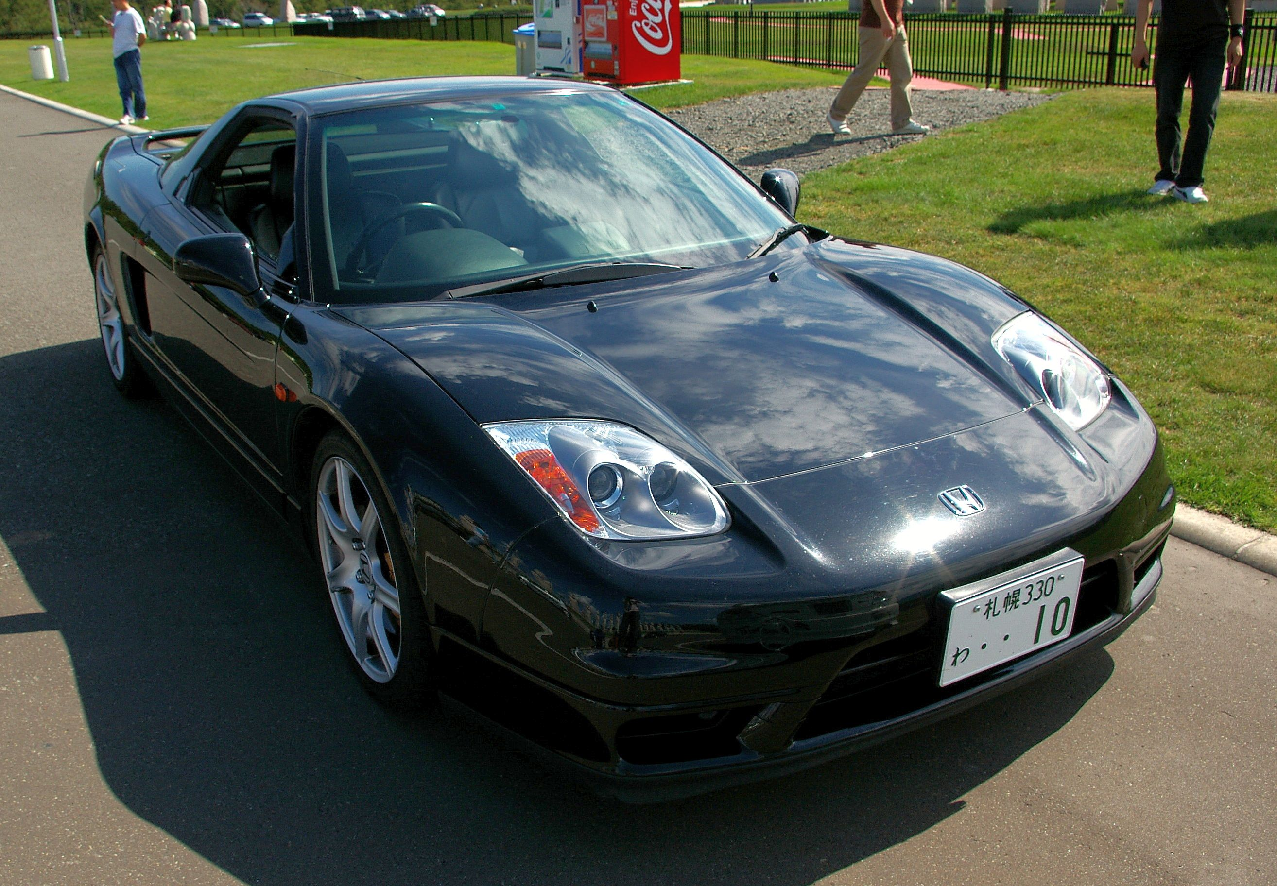 Honda NSX(typeIII).